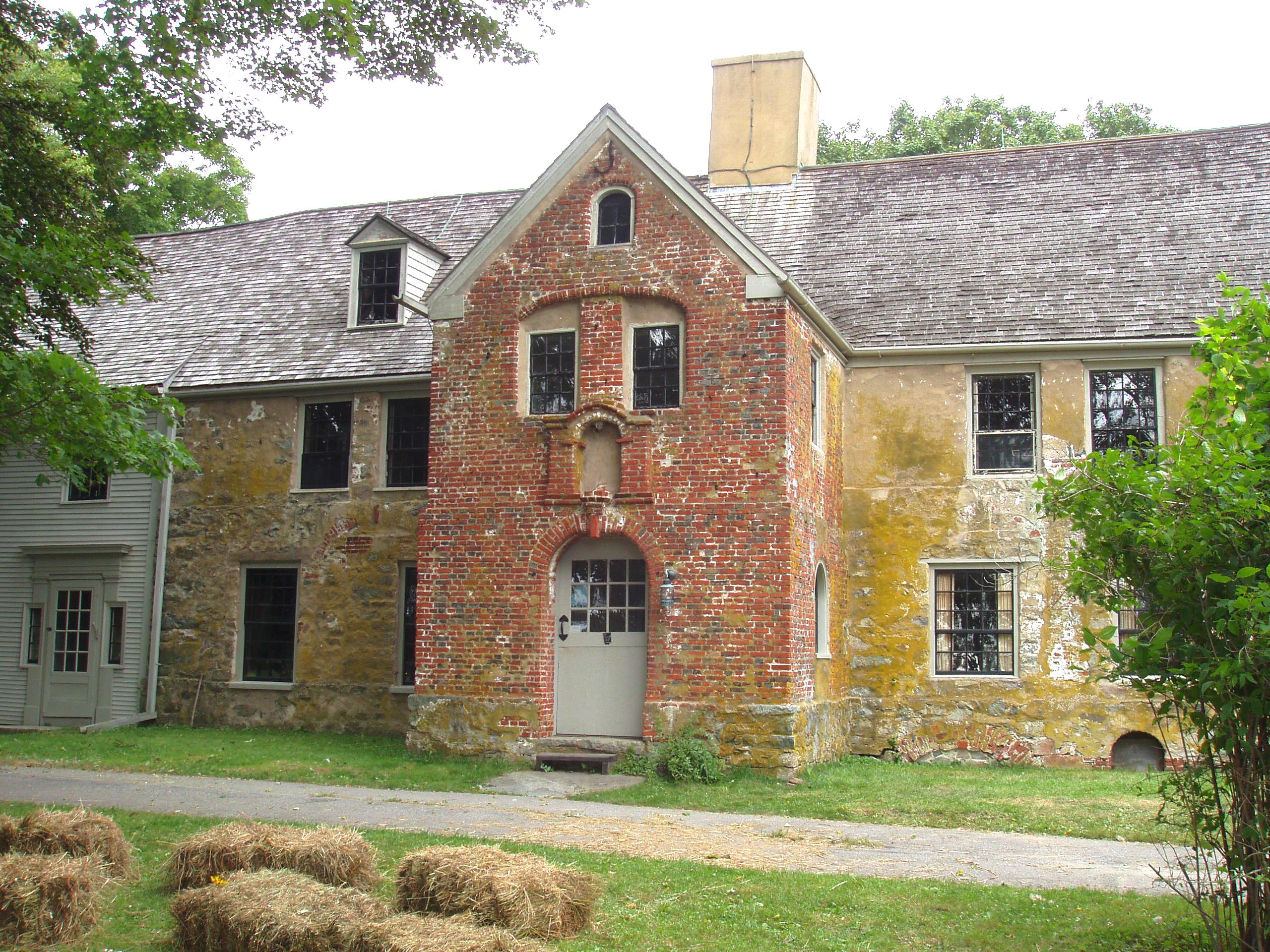 Spencer-Peirce-Little Farm - Newbury, Massachusetts. Front view. Photograph taken by me, September 2005.